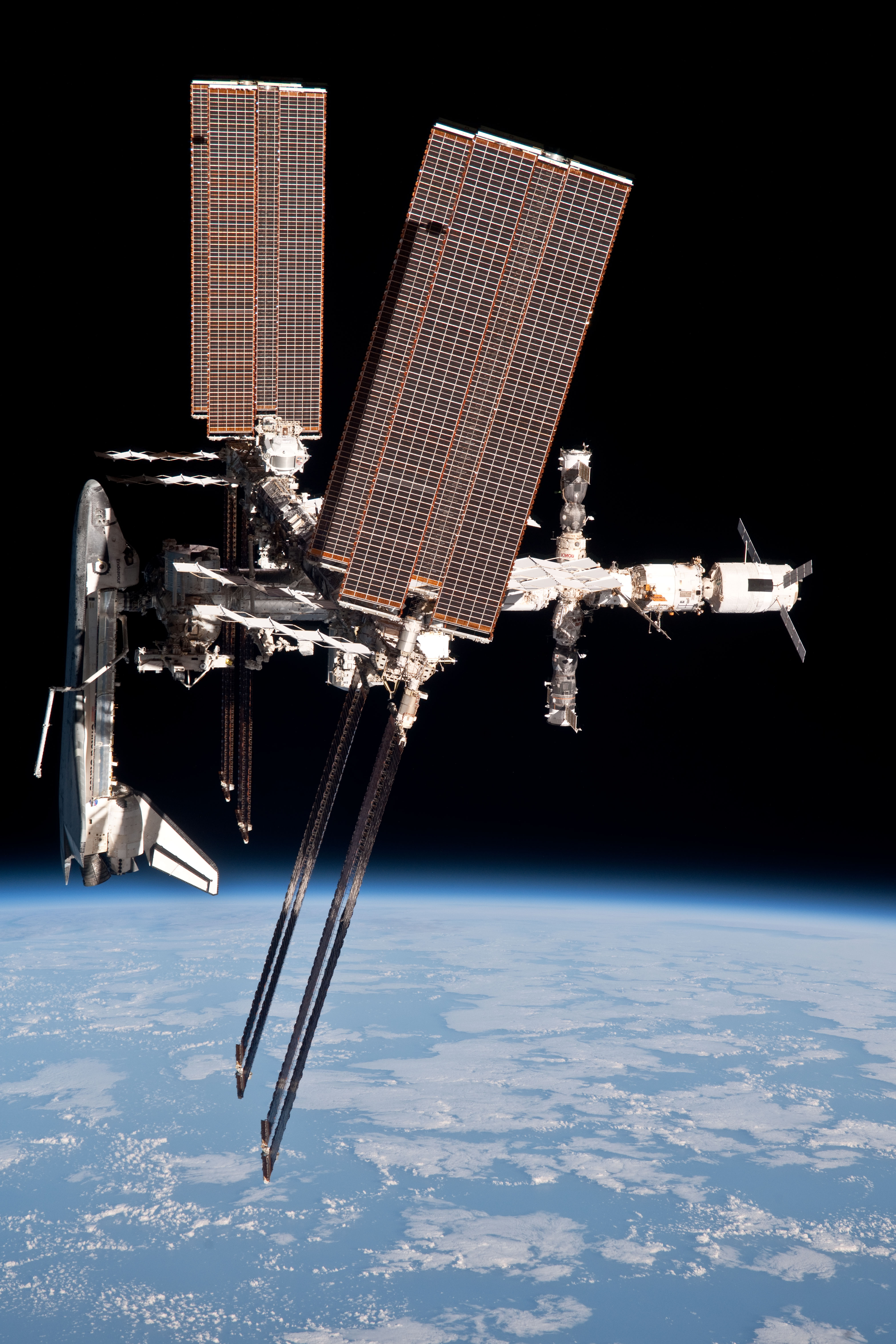 This image of the International Space Station and the docked space shuttle Endeavour, flying at an altitude of approximately 220 miles, was taken by Expedition 27 crew member Paolo Nespoli from the Soyuz TMA-20 following its undocking on May 23, 2011 (USA time). The pictures taken by Nespoli are the first taken of a shuttle docked to the International Space Station from the perspective of a Russian Soyuz spacecraft. Onboard the Soyuz were Russian cosmonaut and Expedition 27 commander Dmitry Kondratyev; Nespoli, a European Space Agency astronaut; and NASA astronaut Cady Coleman. Coleman and Nespoli were both flight engineers. The three landed in Kazakhstan later that day, completing 159 days in space.